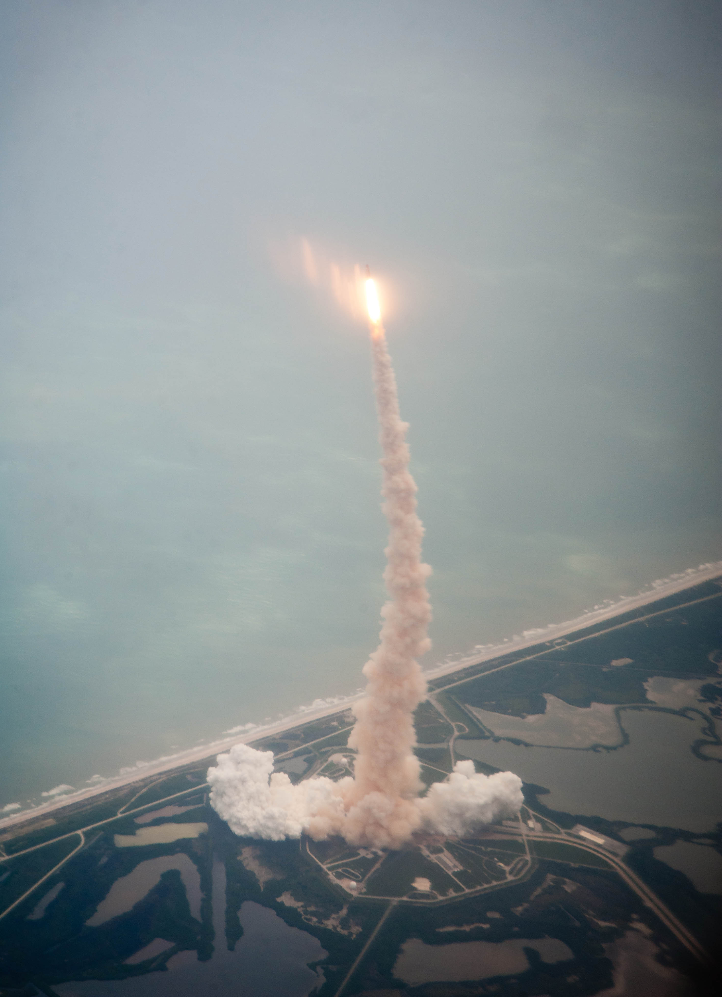 Space shuttle Atlantis is seen through the window of a Shuttle Training Aircraft (STA) as it launches from launch pad 39A at Kennedy Space Center on the STS-135 mission, Friday, July 8, 2011 in Cape Canaveral, Florida.